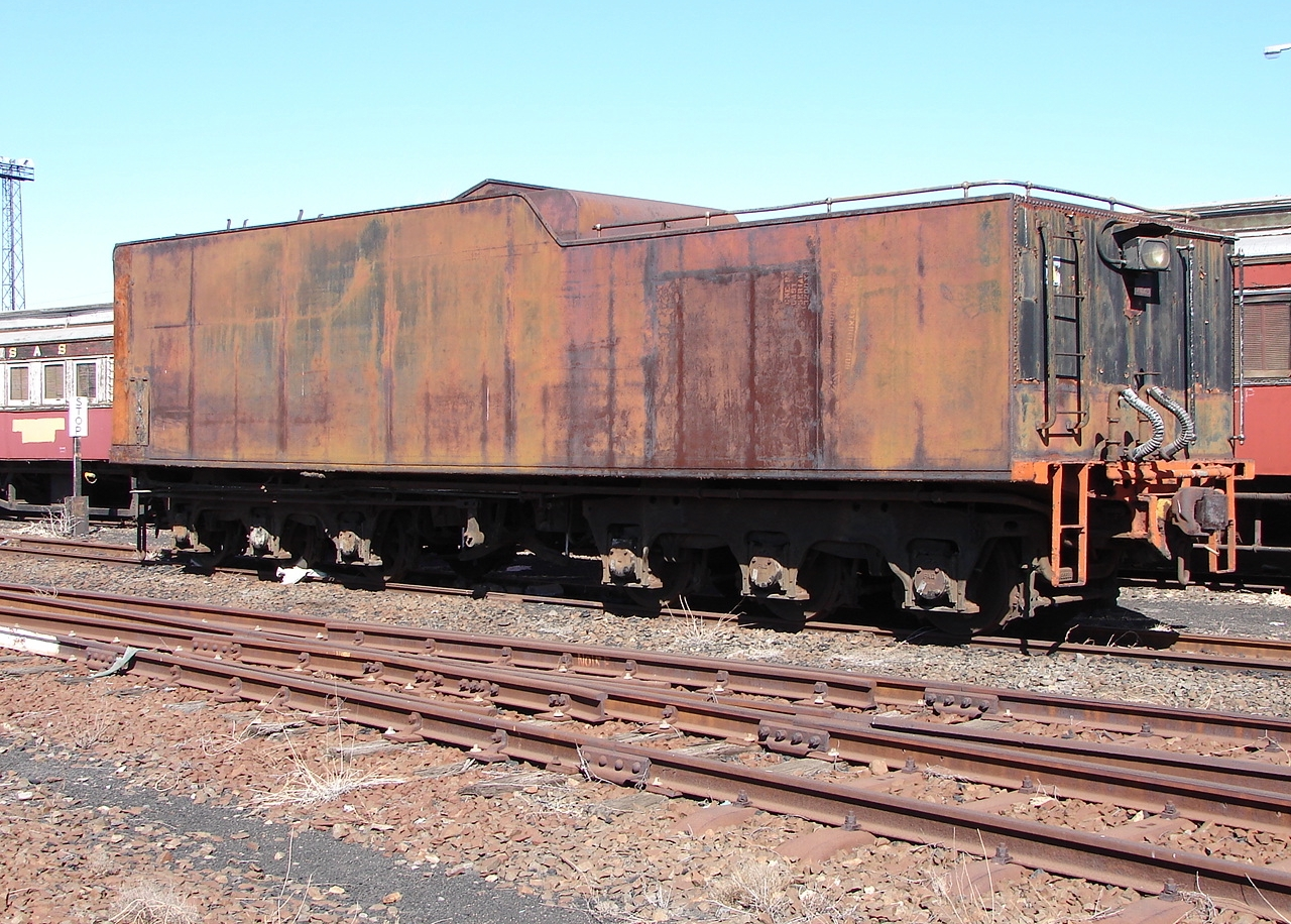 Class 25NC locomotive's Type EW1 tender Location: Beaconsfield, Kimberley, Northern Cape